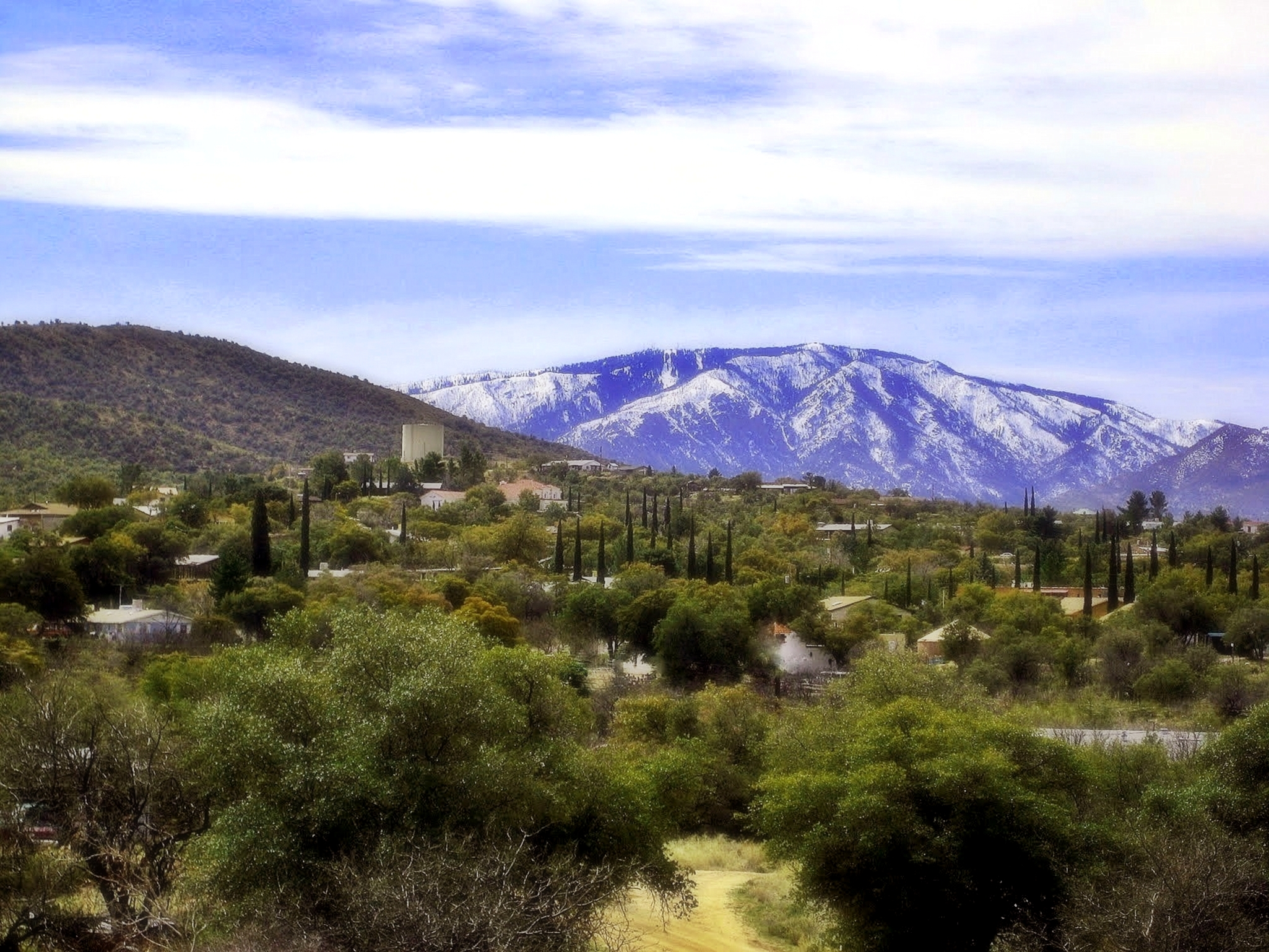 Sunset Point Drive in Oracle, AZ. It is a view of Oracle, AZ looking south with Mount Lemmon in the background.